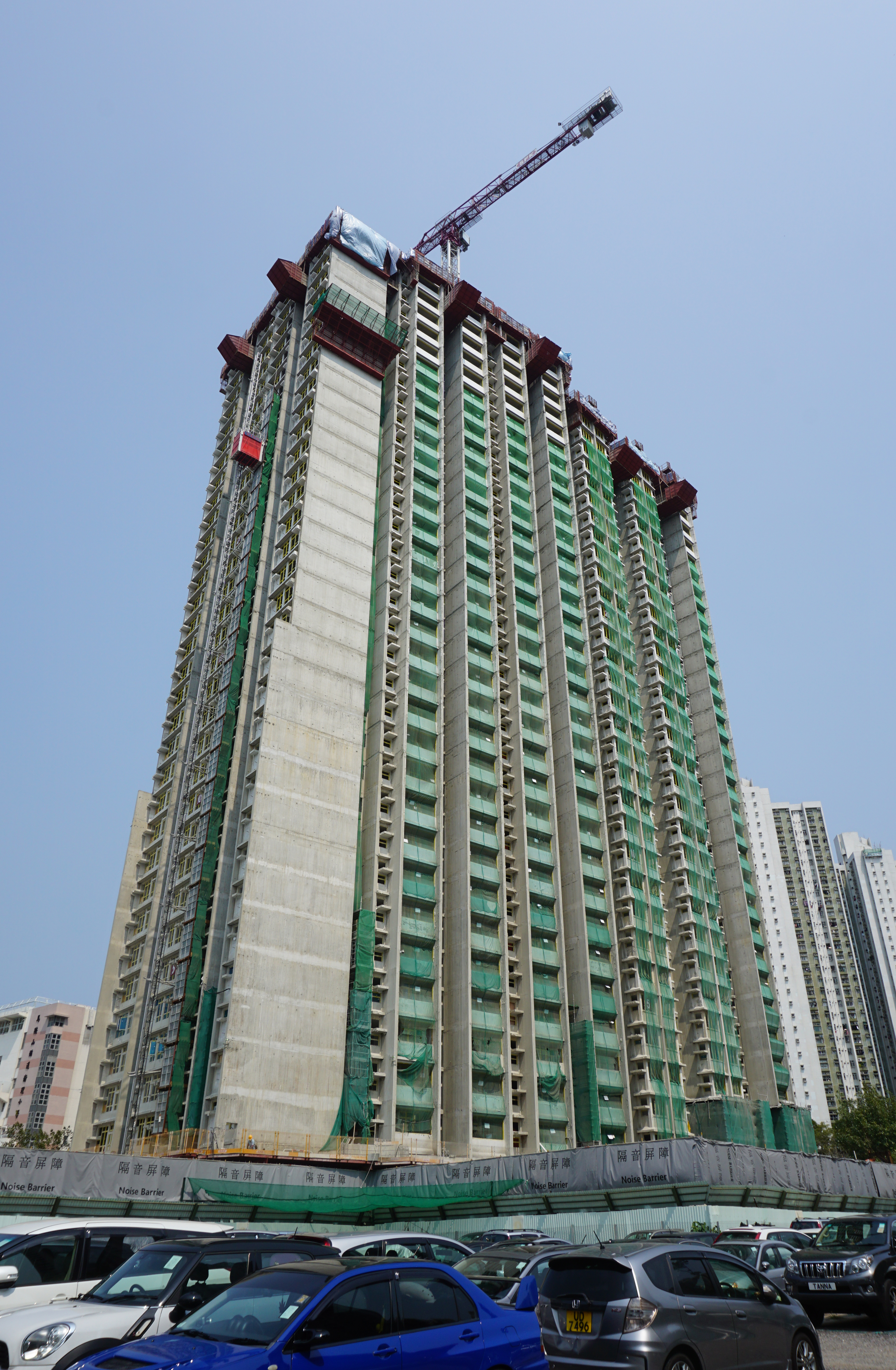 Kam Fai Court in Heng On, Hong Kong.